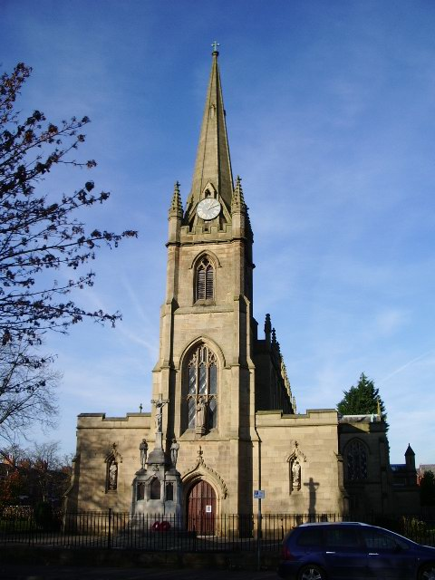 St Ignatius' Roman Catholic Church, Meadow Street, Preston, Lancashire, seen from the south